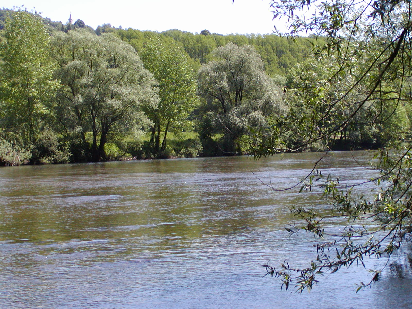 Kolpa river at Marindol.